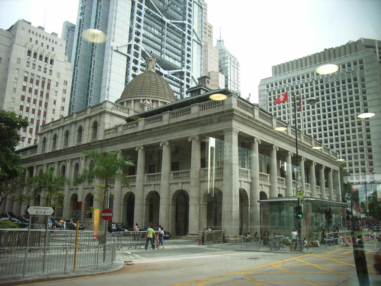 The Chater Road, Central, Hong Kong PC652107